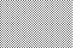 The first desktop wallpaper, as used on the Xerox Star in 1975.